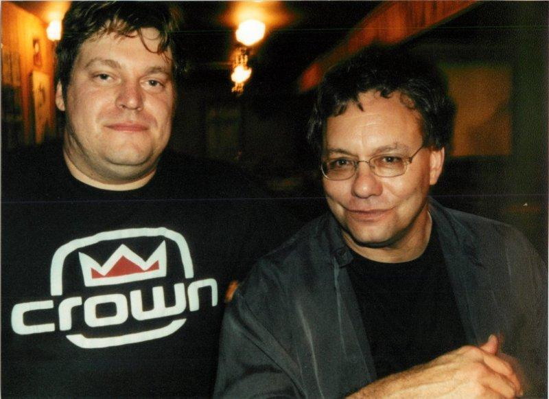 John Machnik and Lewis Black during the recording of The End of the Universe in Atlanta, GA.